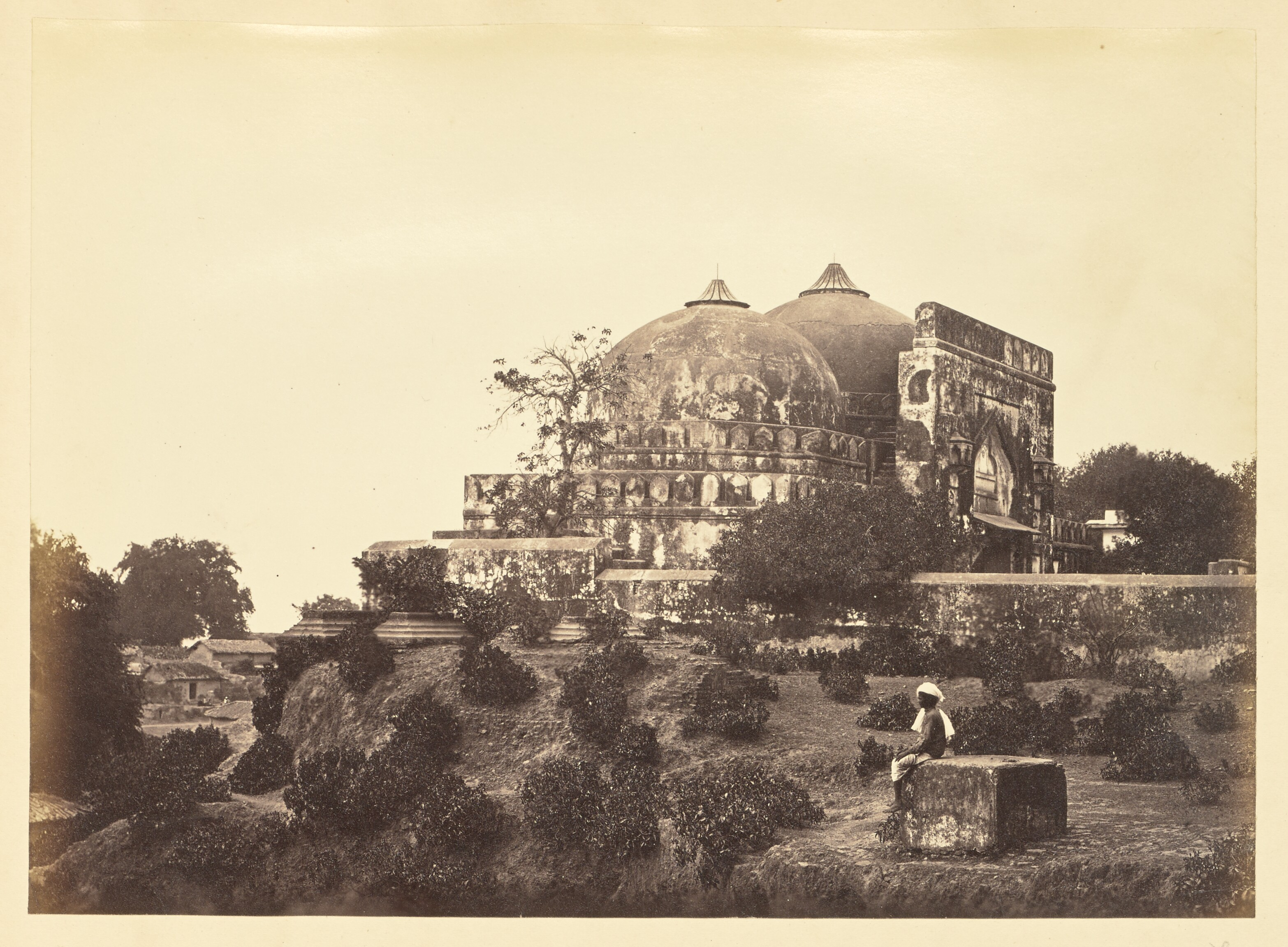 The now destroyed Babri Masjid mosque, Faizabad, India; Ayodhya, India.